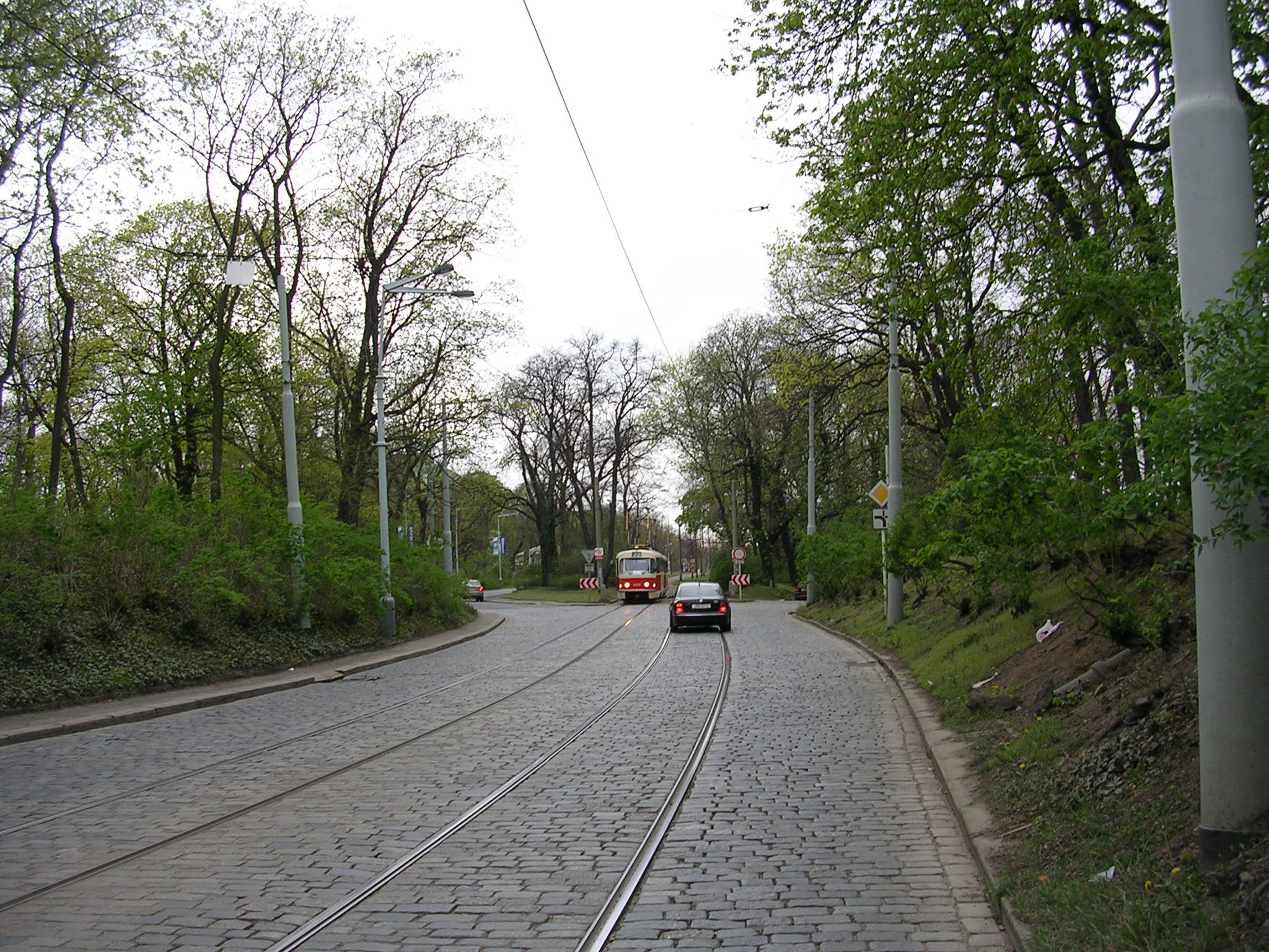 Hradčany, Prague, the Czech Republic.